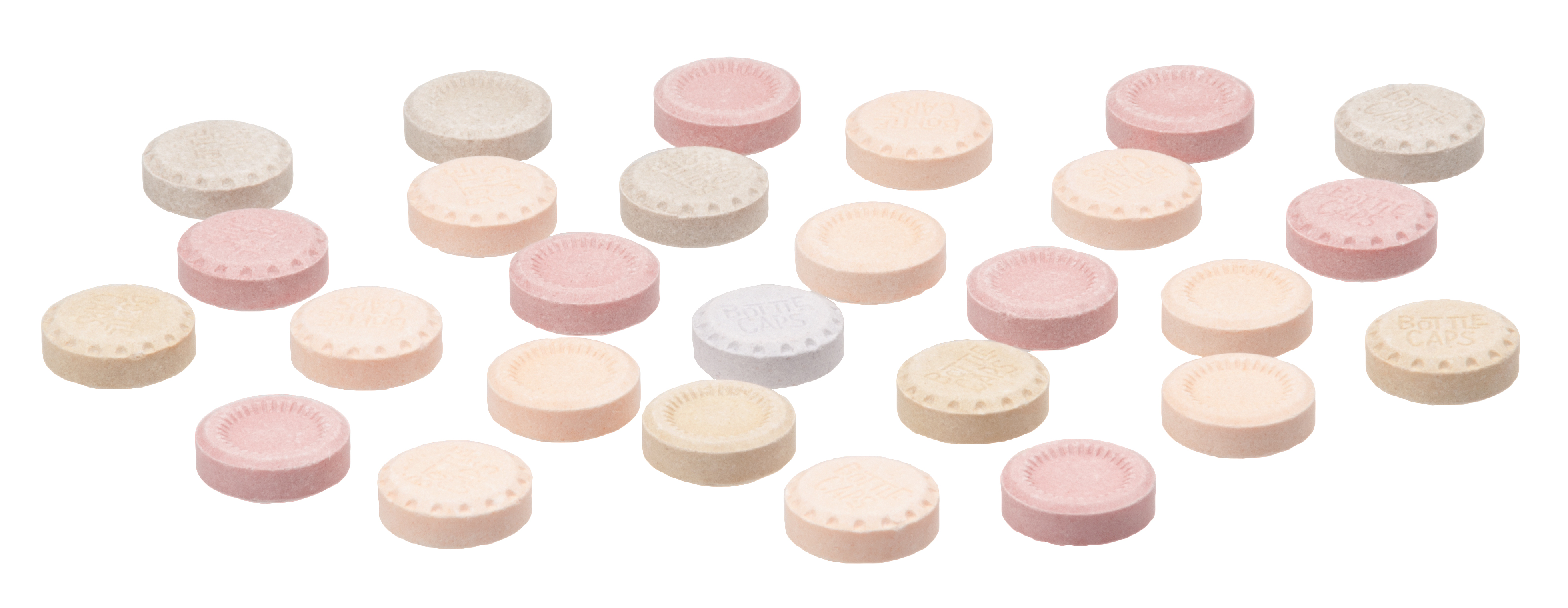 Bottle Caps candies, a roll's worth, made by the Willy Wonka Candy Company.